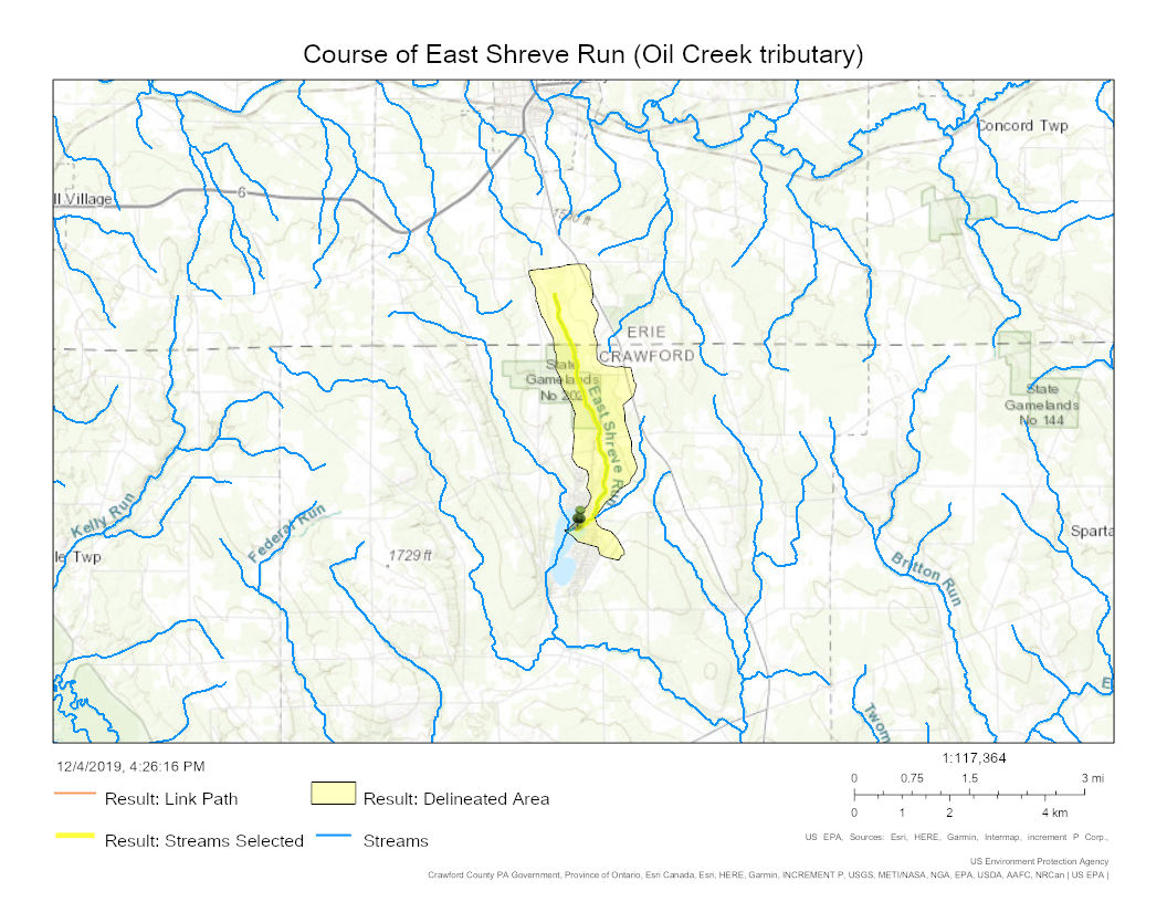 Map of the course of East Shreve Run (Oil Creek tributary) in Crawford and Erie Counties, Pennsylvania.